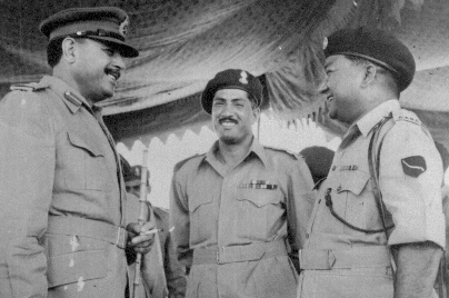 Brigadier Abbas Baig with president Ayub of Pakistan